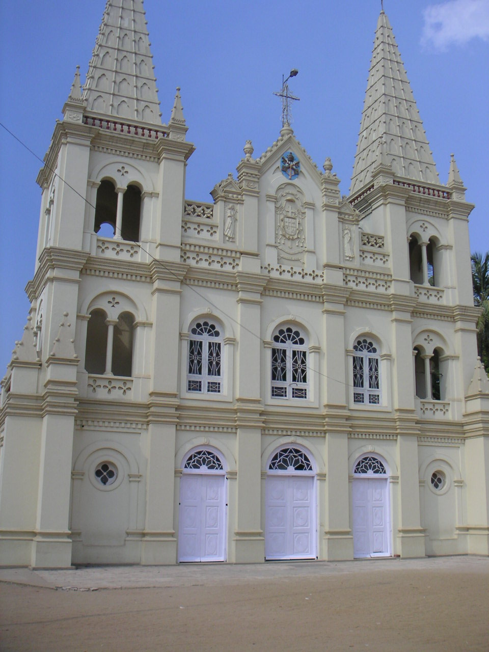 Church in Cochin, India